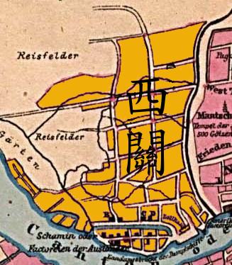 West Gate (西關) of Canton City, Kwangtung Province in 1878